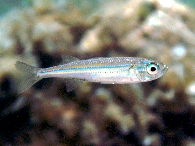 Atherina boyeri photographed in Sardinia, Italy.